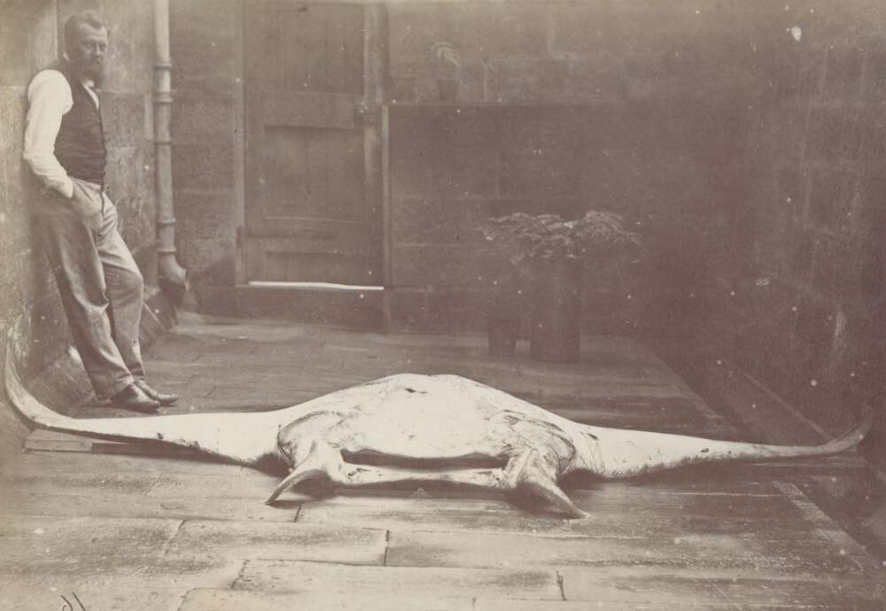 Biologist Gerard Krefft with a reef manta ray (Manta alfredi)